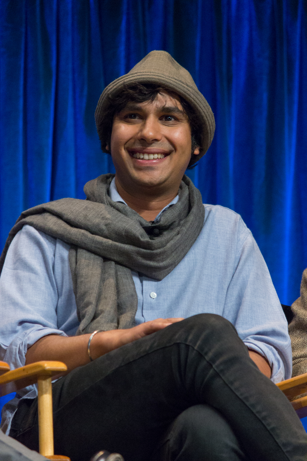 Kunal Nayyar at PaleyFest 2013 for the TV show "Big Bang Theory"